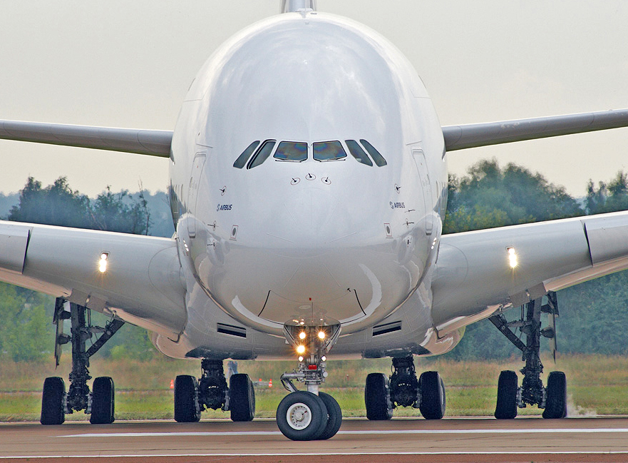 An Airbus A380 turning sharply to enter a runway at the MAKS 2011 event. The rear main landing gear (center) can be seen twisting, and the side main landing gear tires can be seen straining.